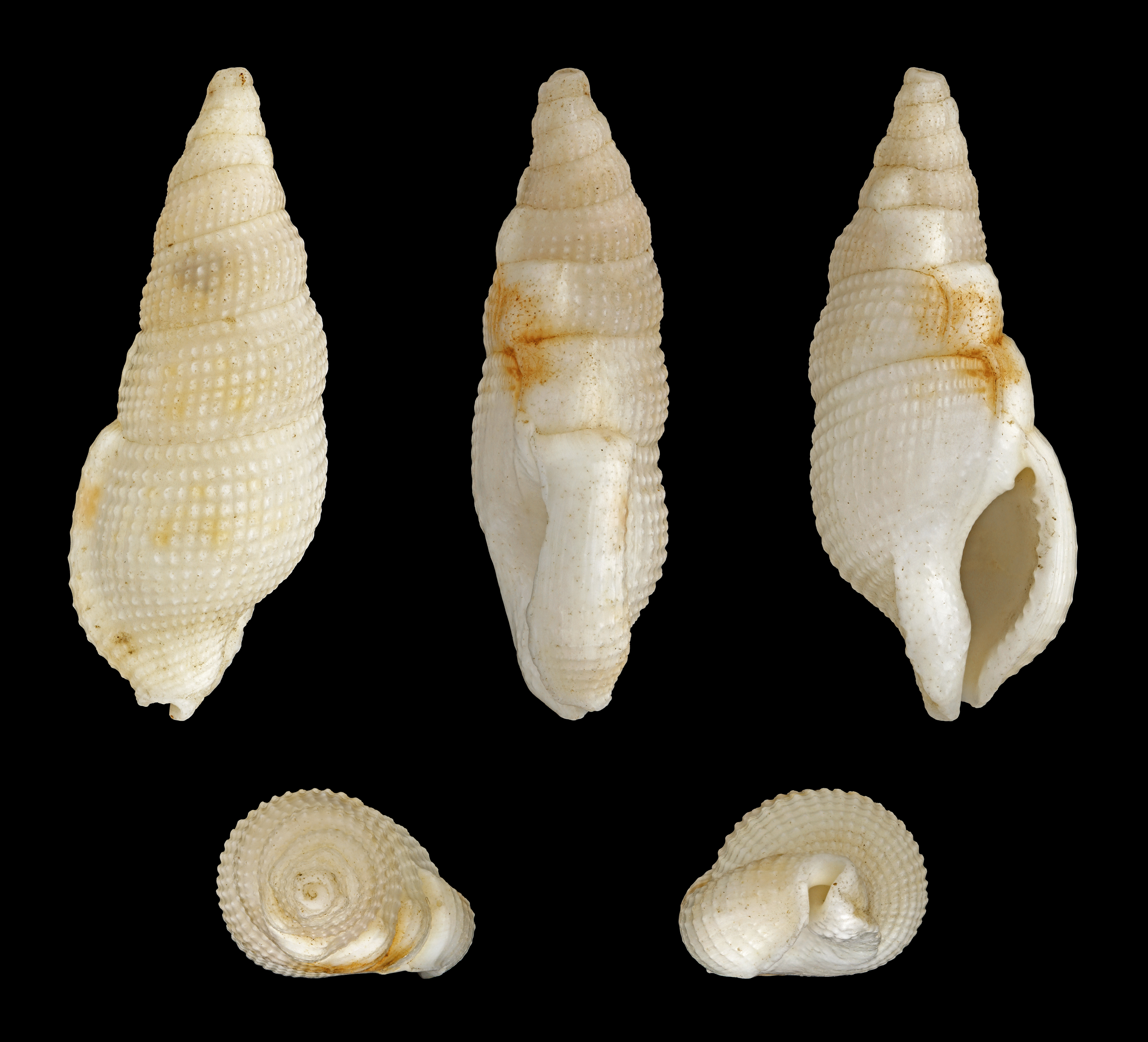 Twisted Dwarf Triton; Length 3.9 cm; Originating from the Indo-Pacific; Shell of own collection, therefore not geocoded. Dorsal, lateral (right side), ventral, back, and front view.